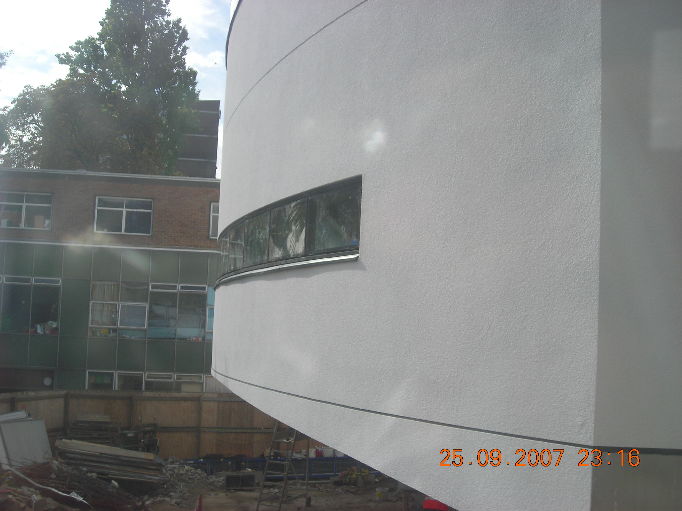 Picture of Forest Hill School's new main building, taken from a classroom